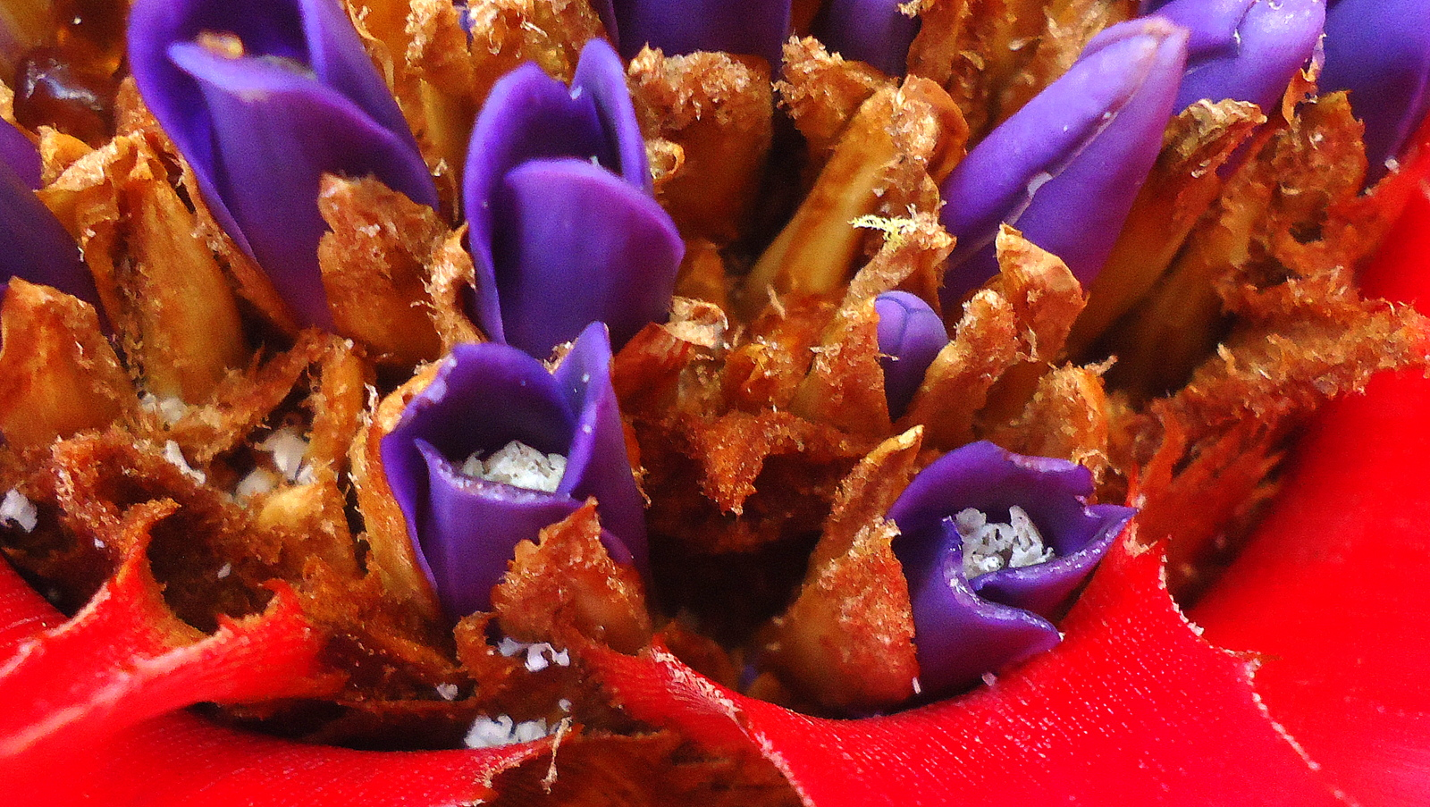 Bromelia unaensis from Entre Rios, Bahia, Brazil